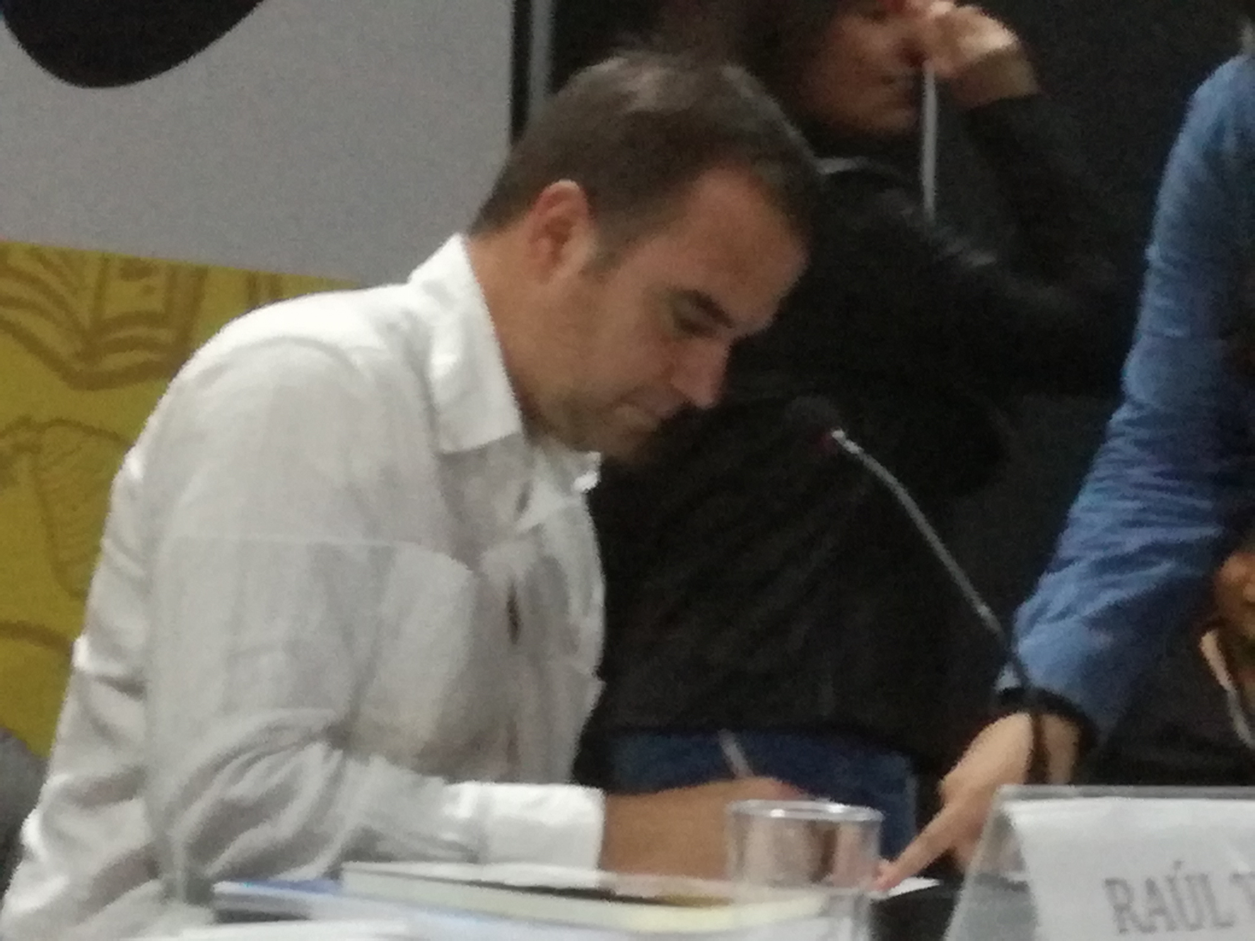 Raúl Tola, peruvian writer.